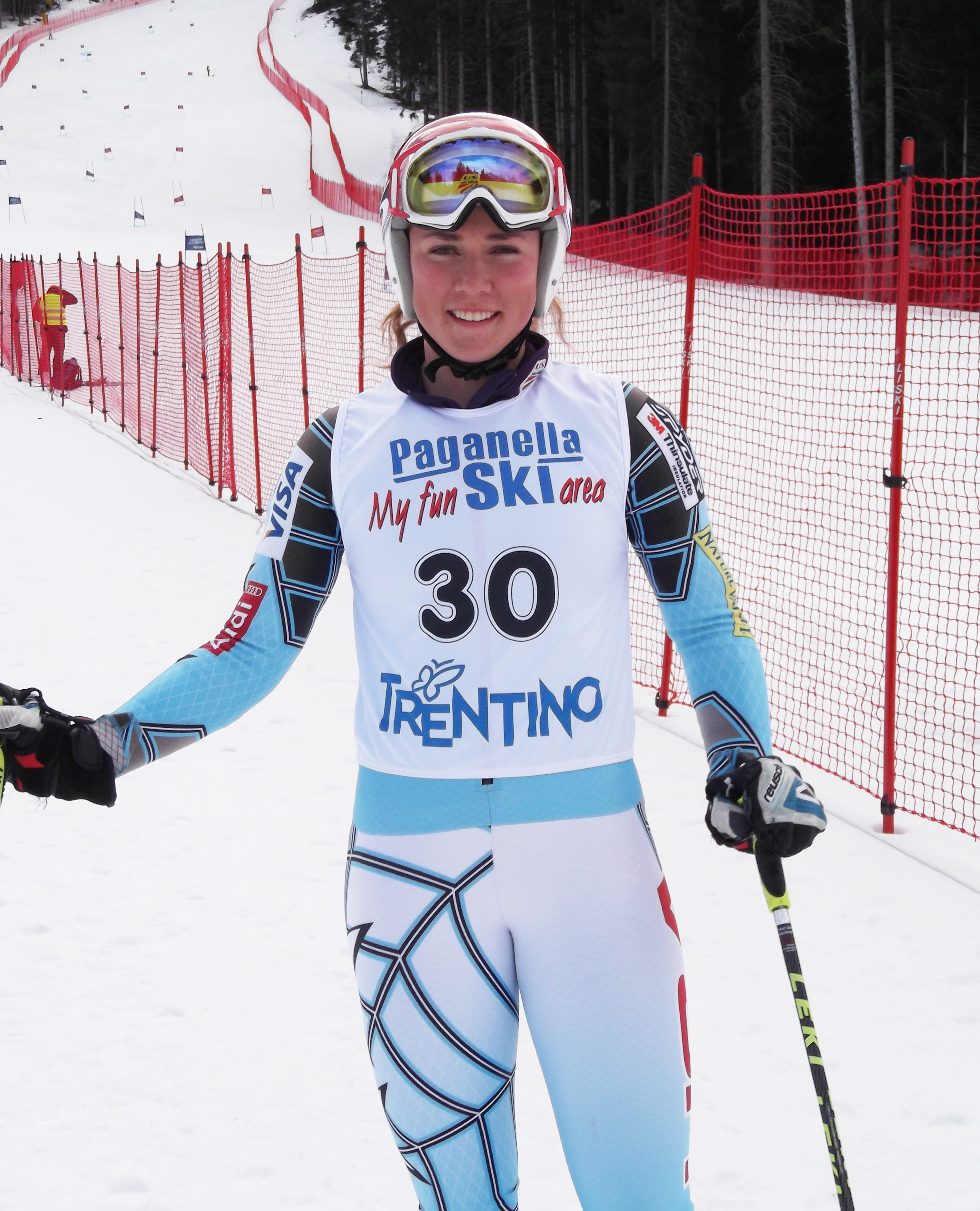 Mikaela Shiffrin in Andalo in 2012